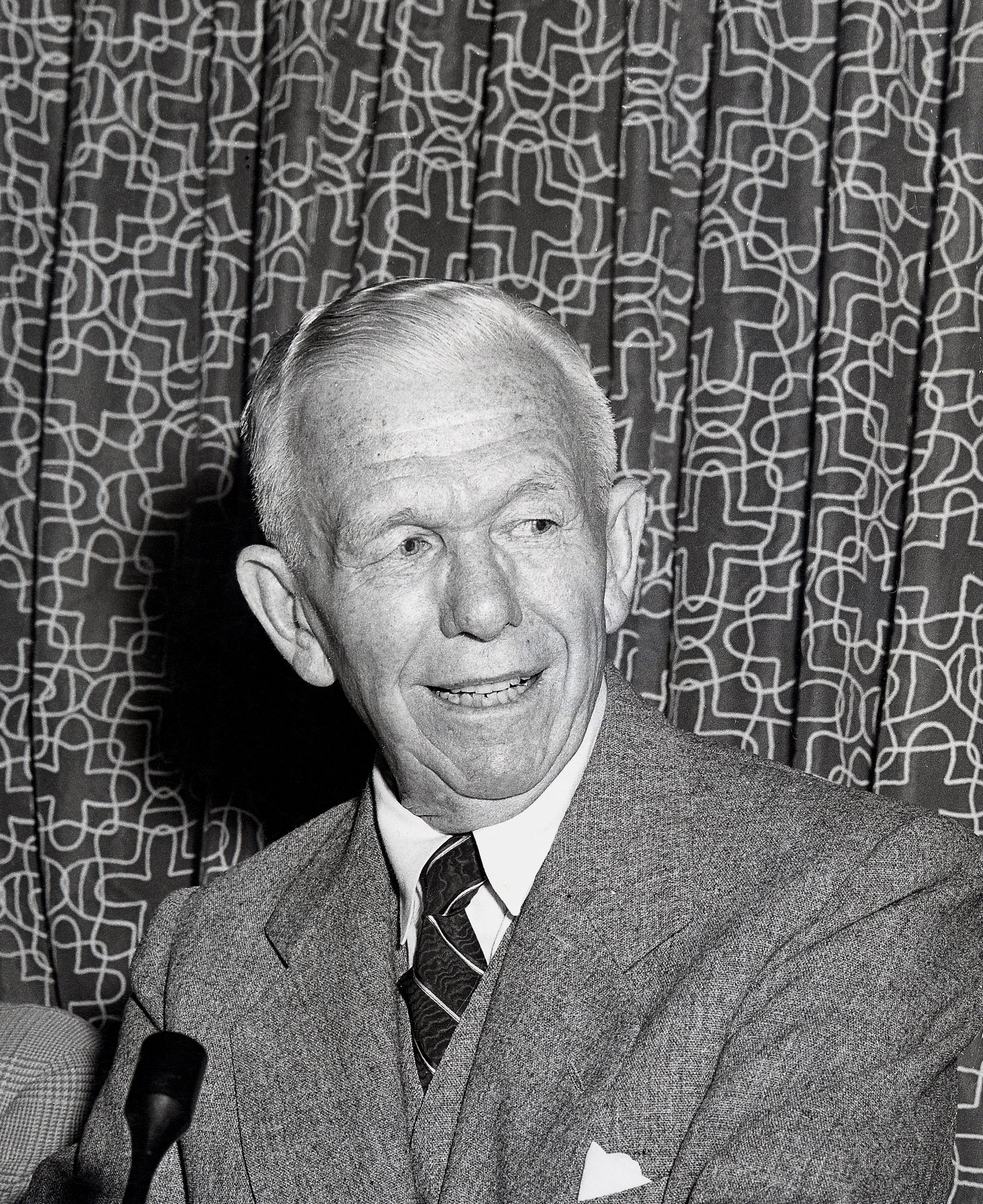 Full Description: The Marshall Space Flight Center, a NASA field installation, was established at Huntsville, Alabama, in 1960. The Center was named in honor of General George C. Marshall, the Army Chief of Staff during World War II, Secretary of State, and Nobel Prize Wirner for his world-renowned Marshall Plan. Image # MSFC-0102335